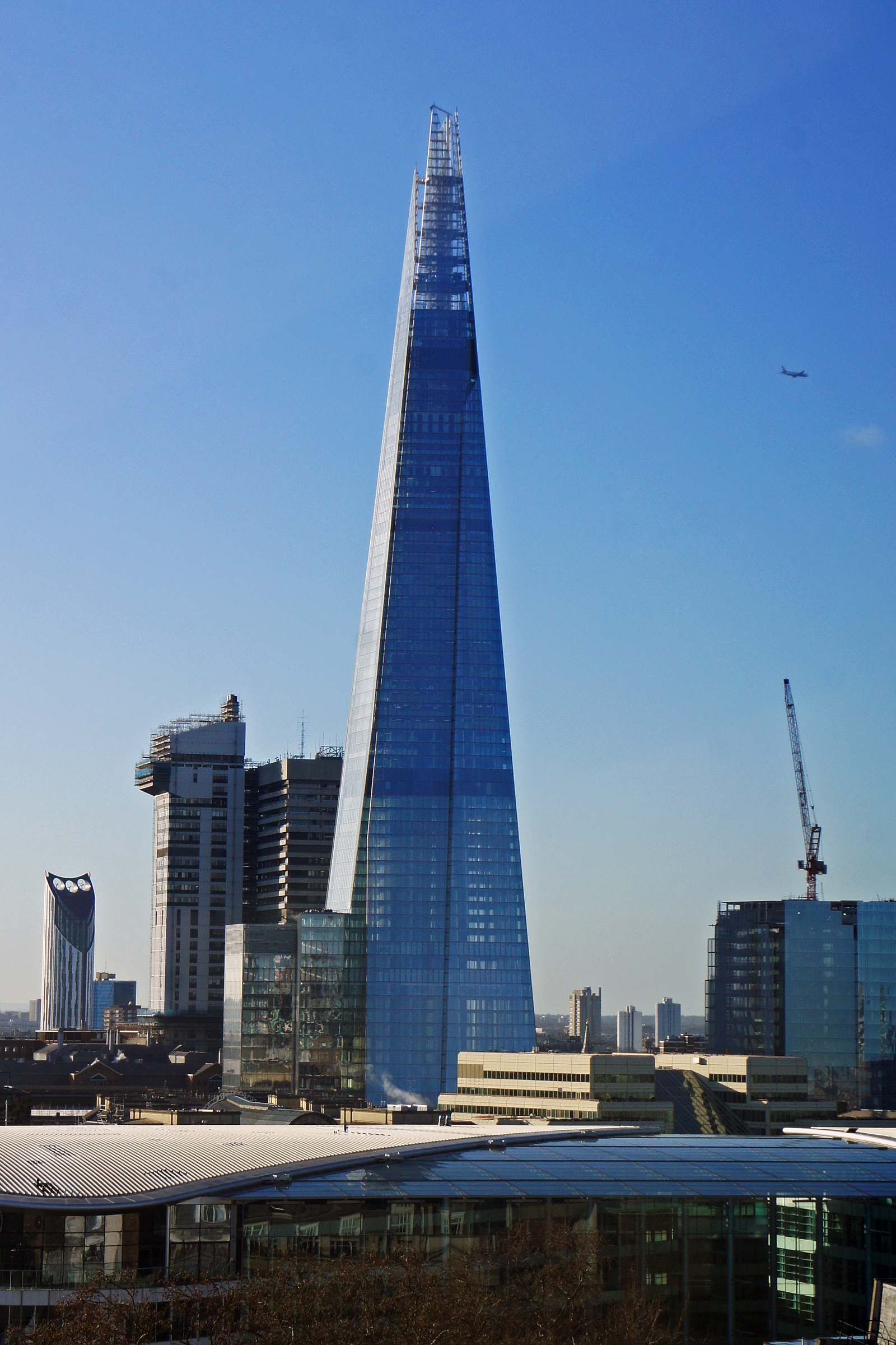 The Shard London Bridge from Tower Hill, London